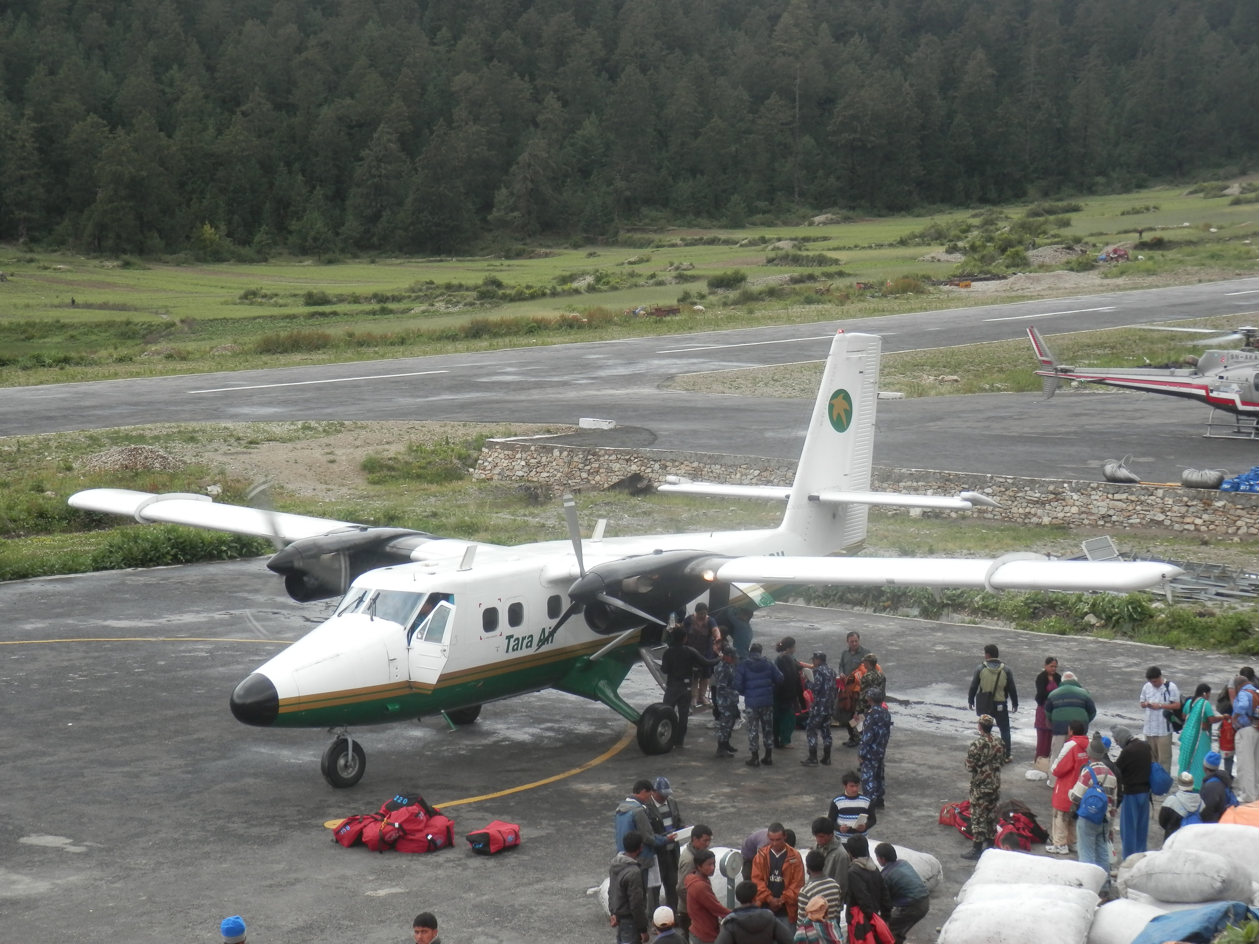 Aeroplane in Simikot Airport.